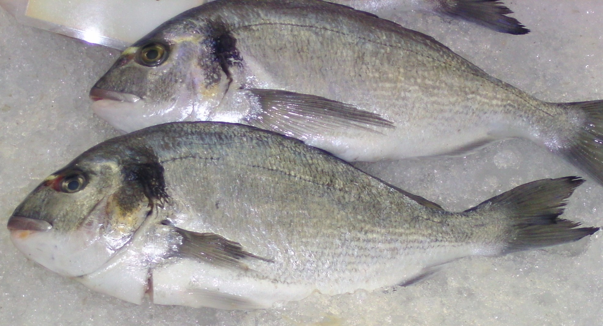 Two gilt-head breams